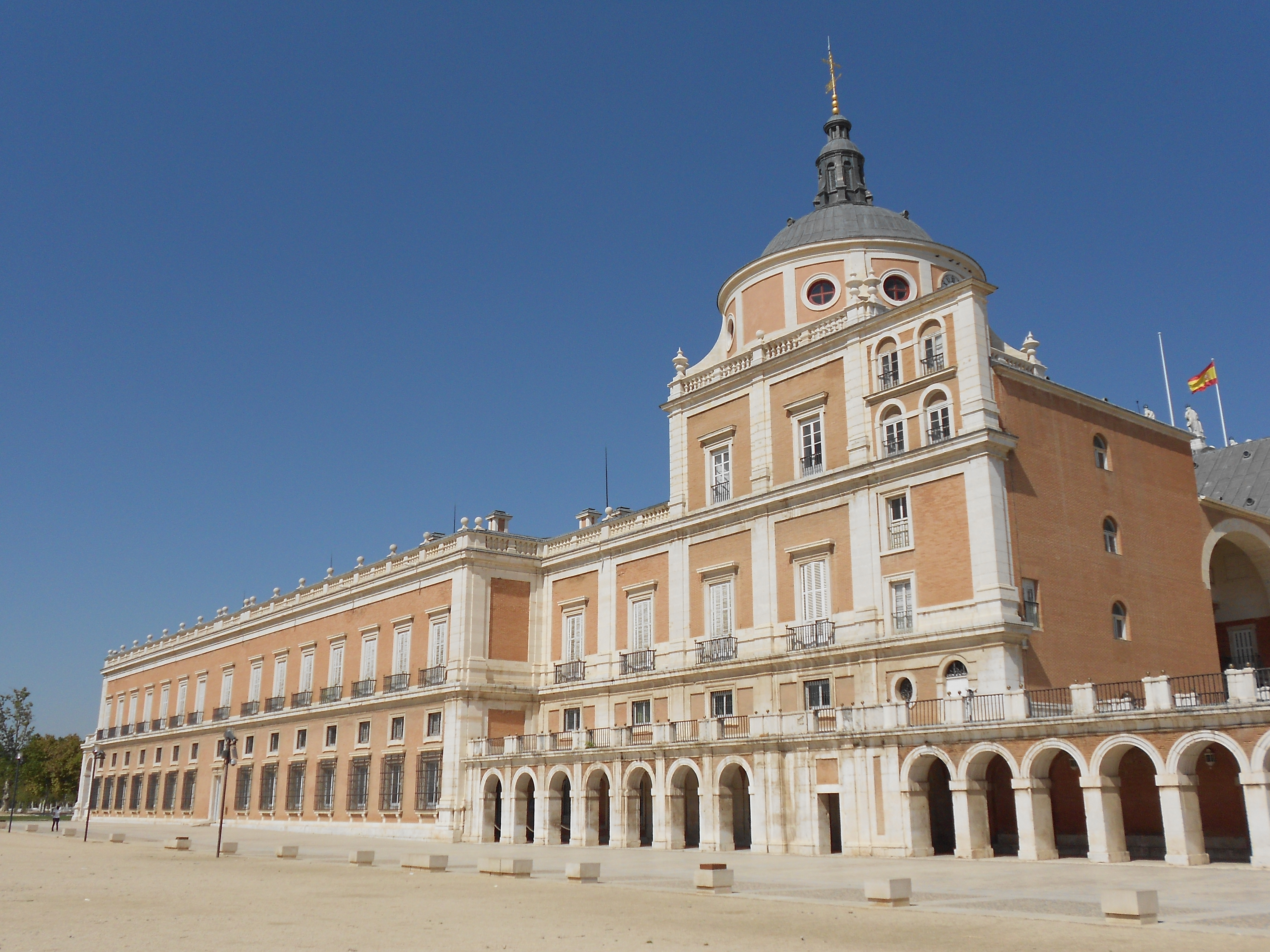 Facade of the Royal Palace of Aranjuez, Aranjuez, Community of Madrid, Spain.